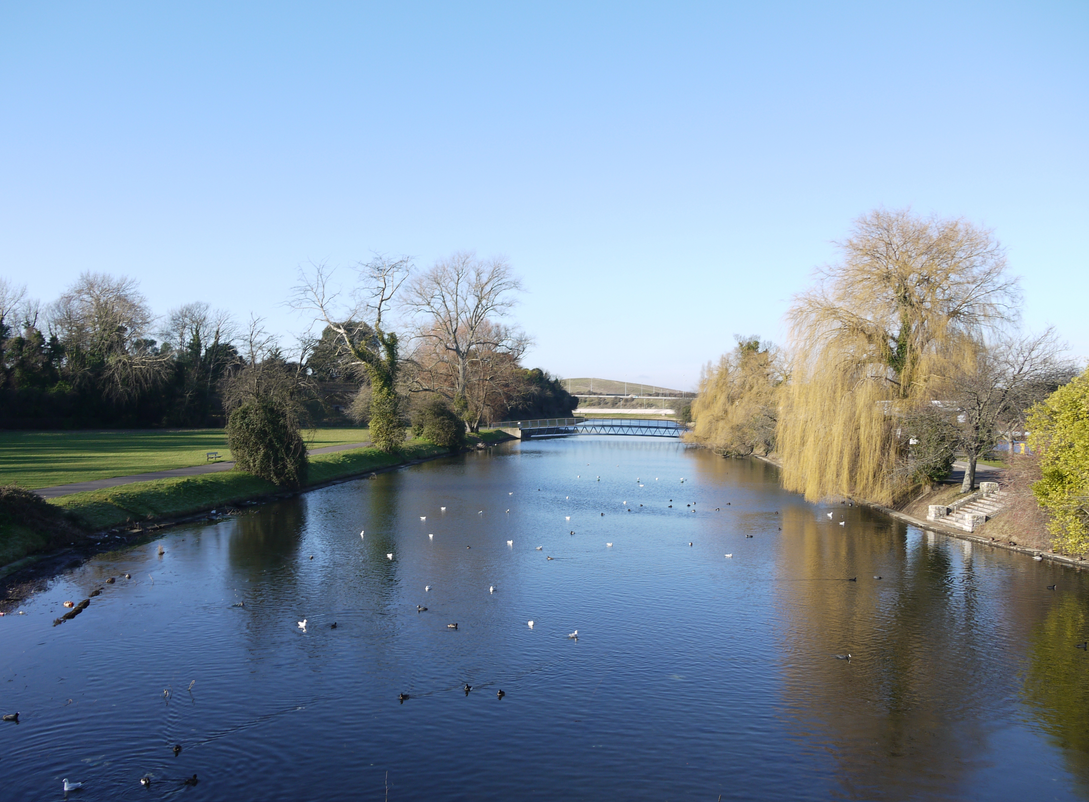 Photo of part of the moat of the hilsea lines that used to serve as a boating lake known as the hilsea lagoon